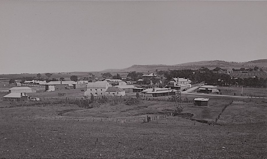 View of the Mintaro township in 1880. Black and white photograph (albumen print); 12.1 cm x 21.8 cm. Photograph is part of Samuel W. Sweet Collection, but it has not been confirmed that this photograph was taken by Sweet.